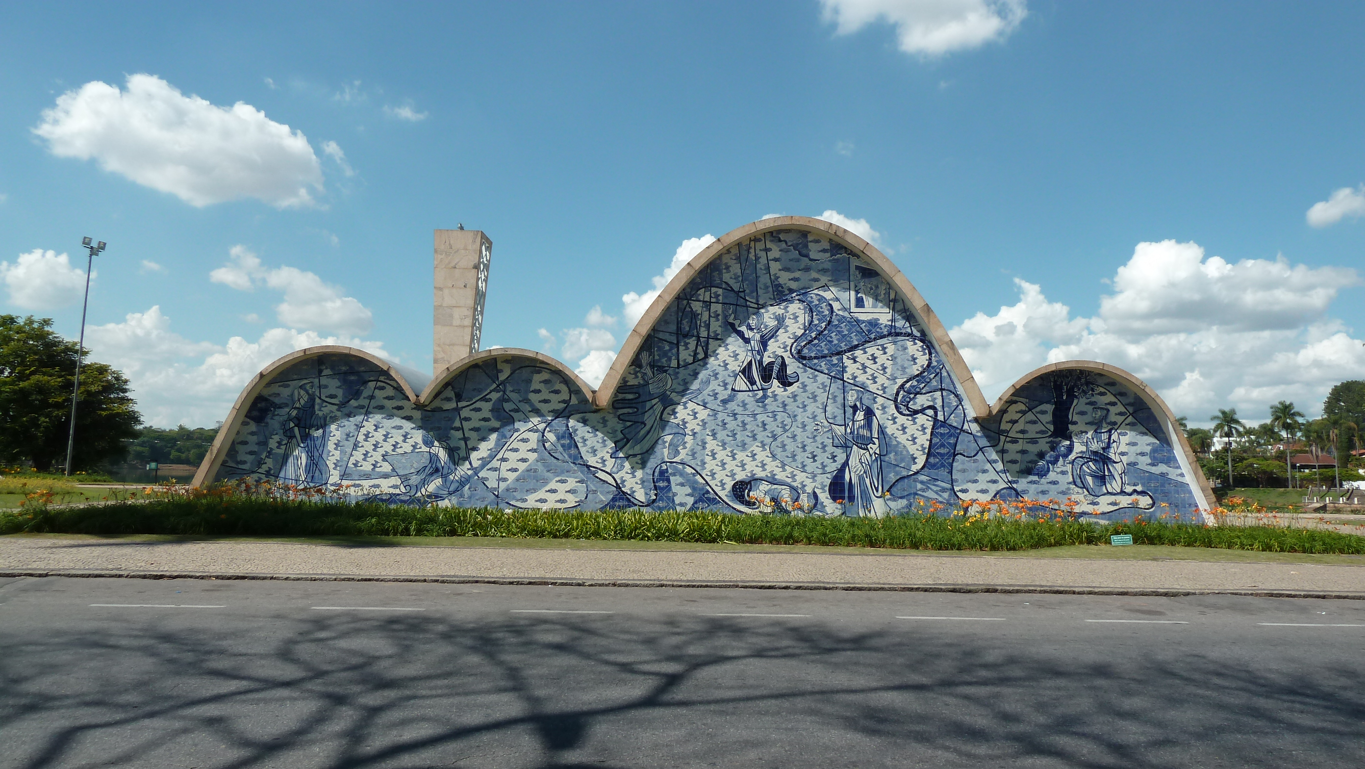 One of many buildings by Oscar Niemeyer in Belo Horizonte, Minas Gerais, Brazil